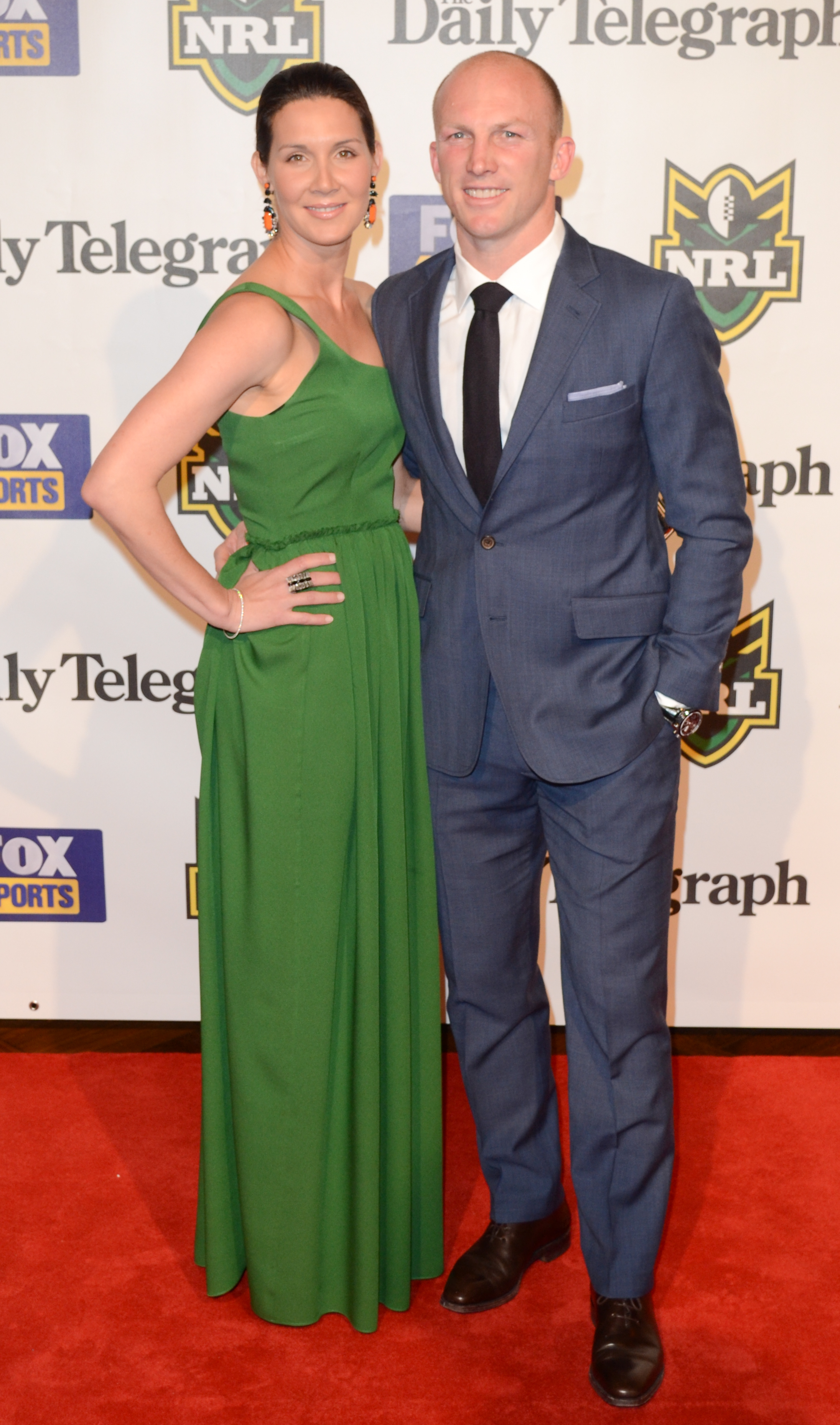 Darren Lockyer with his wife, Lauren